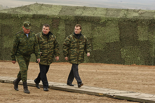 DONGUZ TEST GROUND, ORENBURG REGION. At the strategic operations exercises Centre-2008. With Defence Minister Anatoly Serdyukov and Ground Forces Commander Vladimir Boldyrev.